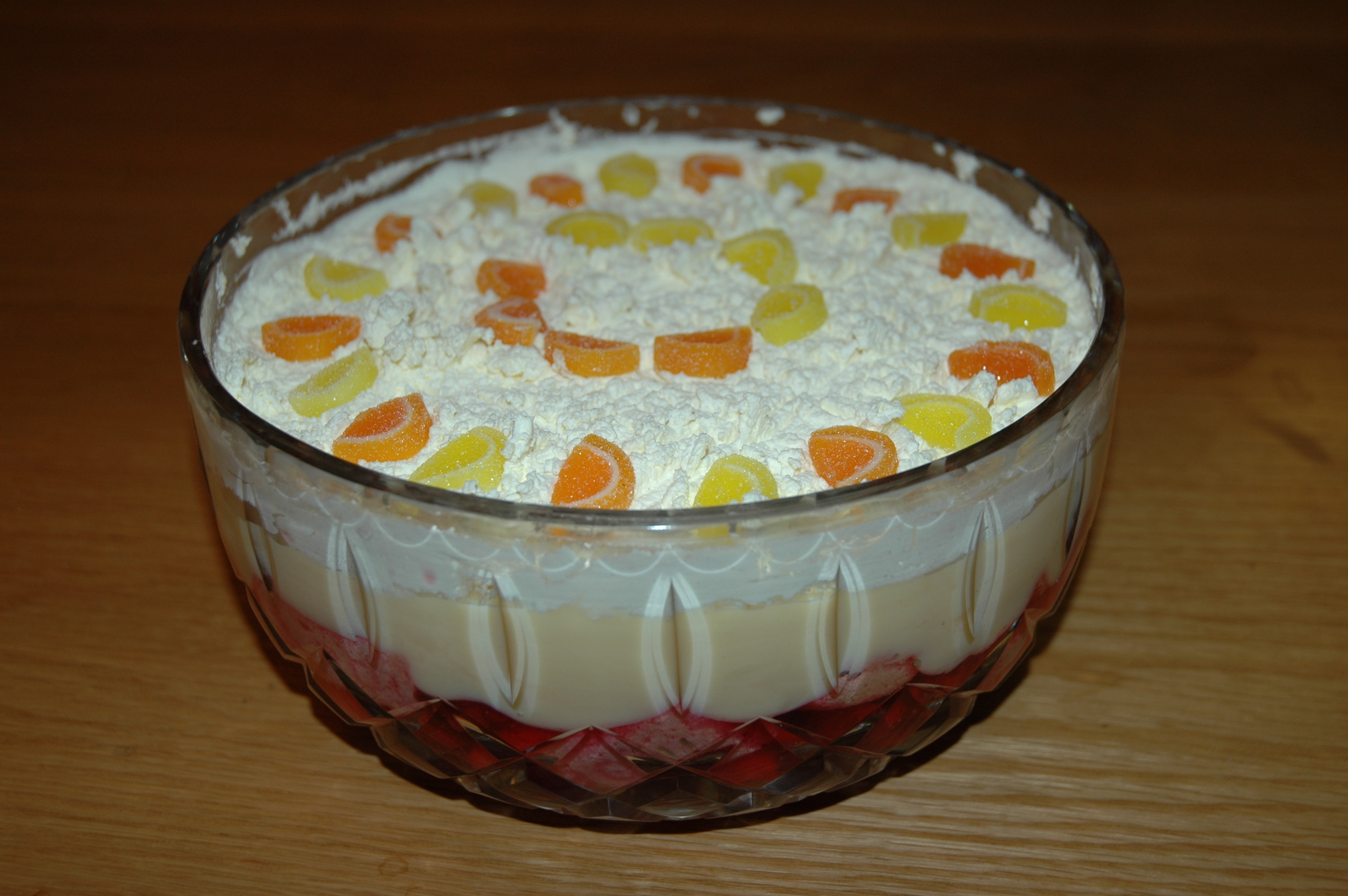 I made this raspberry sherry trifle and took this photo of it.